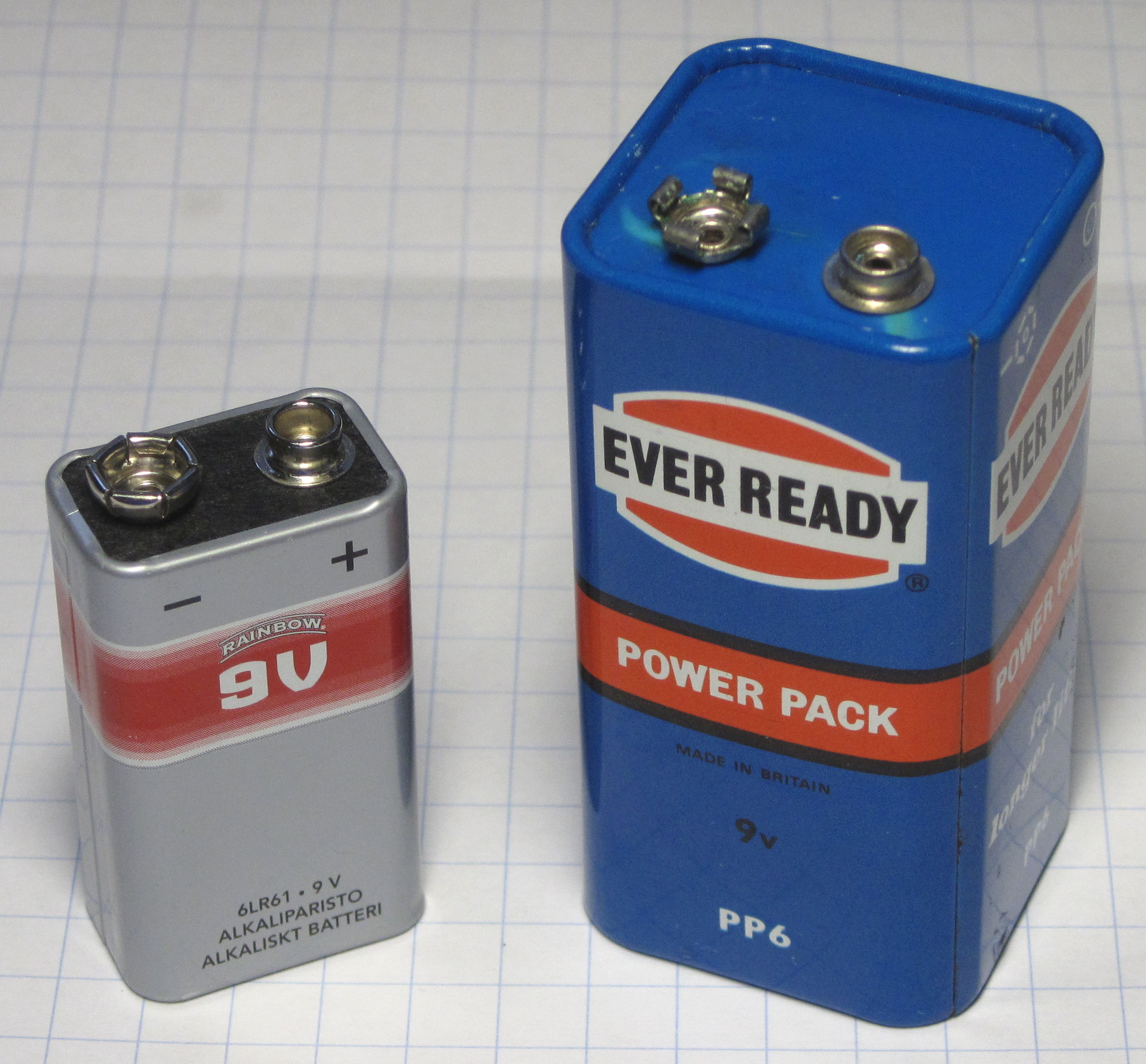 A side by side comparison of a PP6 battery and the more common PP3 type battery. This battery type was 9 volts and had 2 snap connectors. Centre distance between terminals is max 12.95 mm with both offset 7 mm nominal from the wider battery edge. H 70.0 mm L 36.0 mm W 34.5 mm